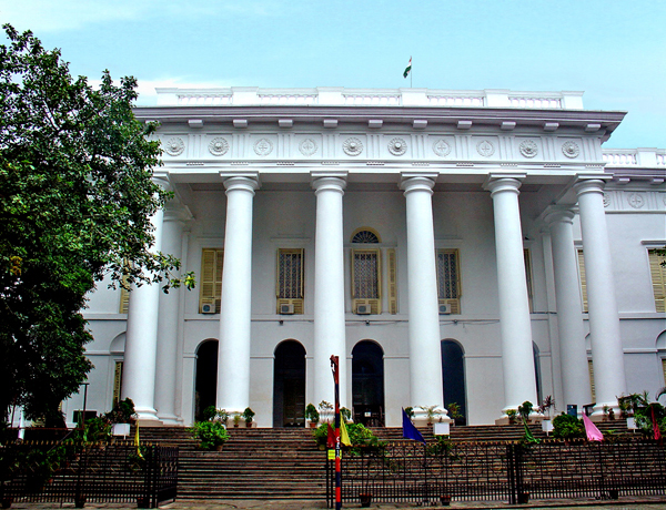 Recent Kolkata Townhall Building